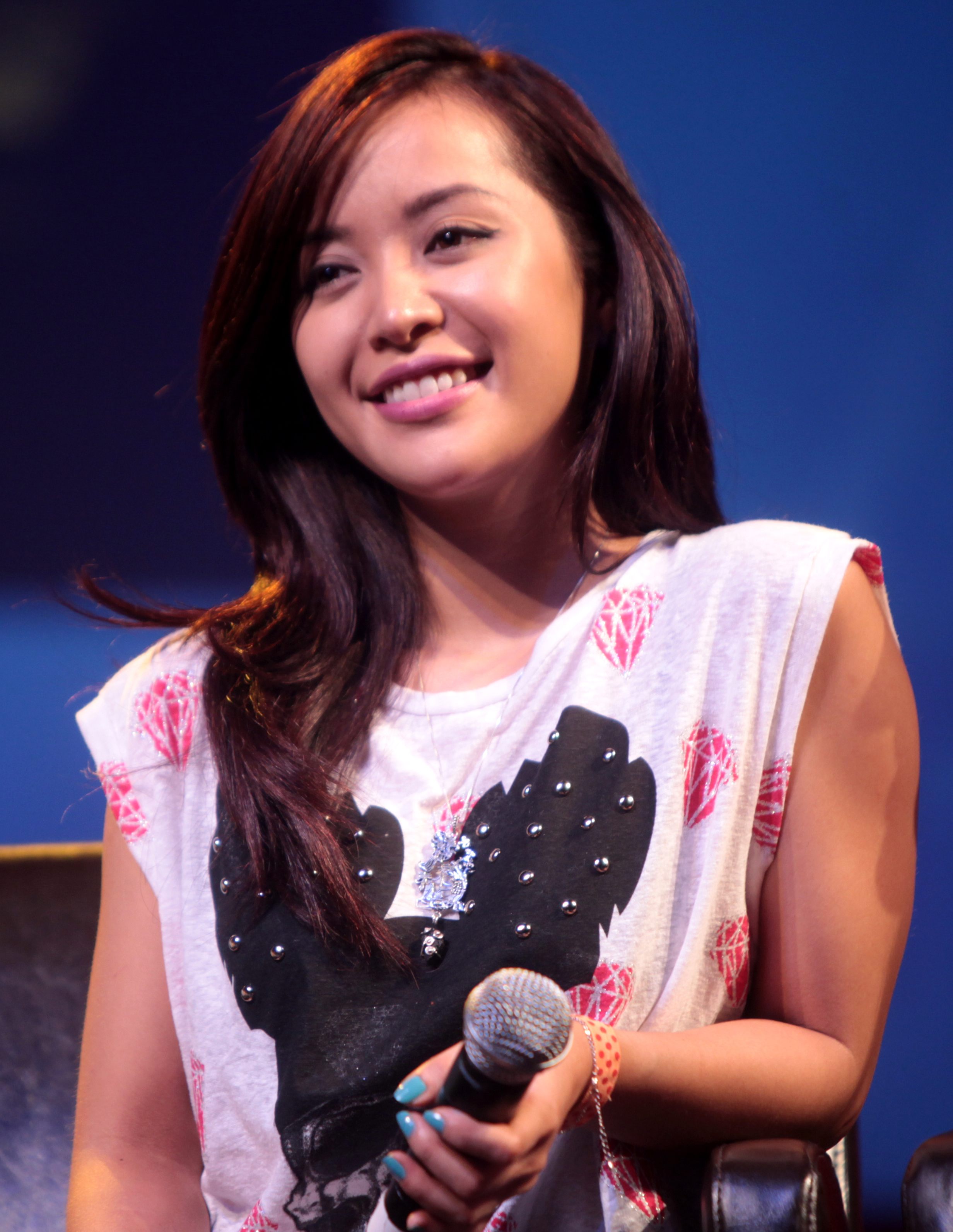 Michelle Phan speaking at the 2014 VidCon on June 28, 2014